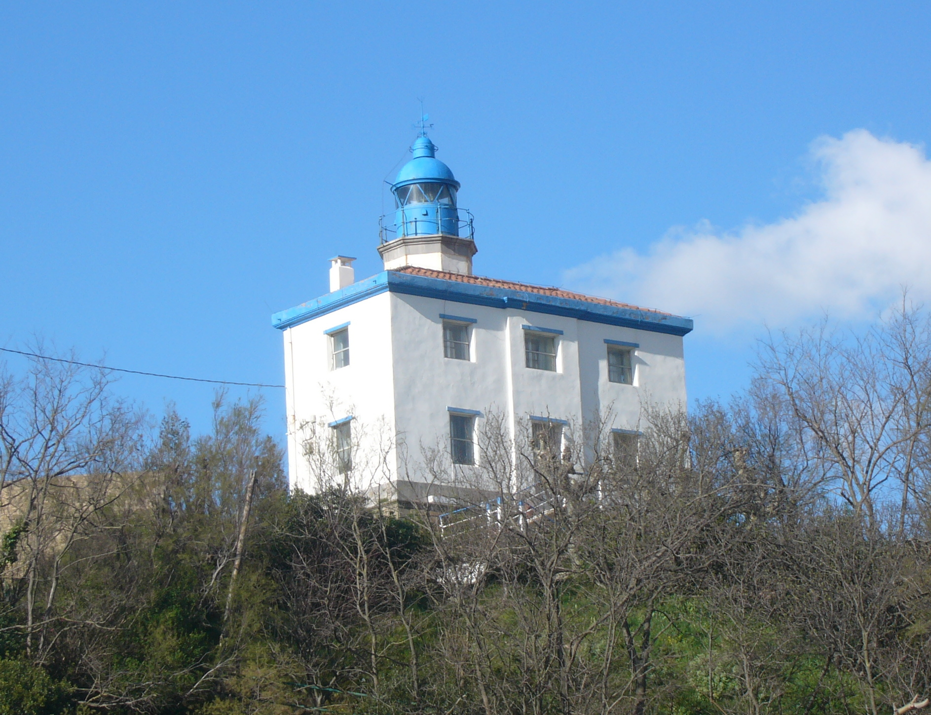 Lighthouse of Zumaia (Gipuzkoa)